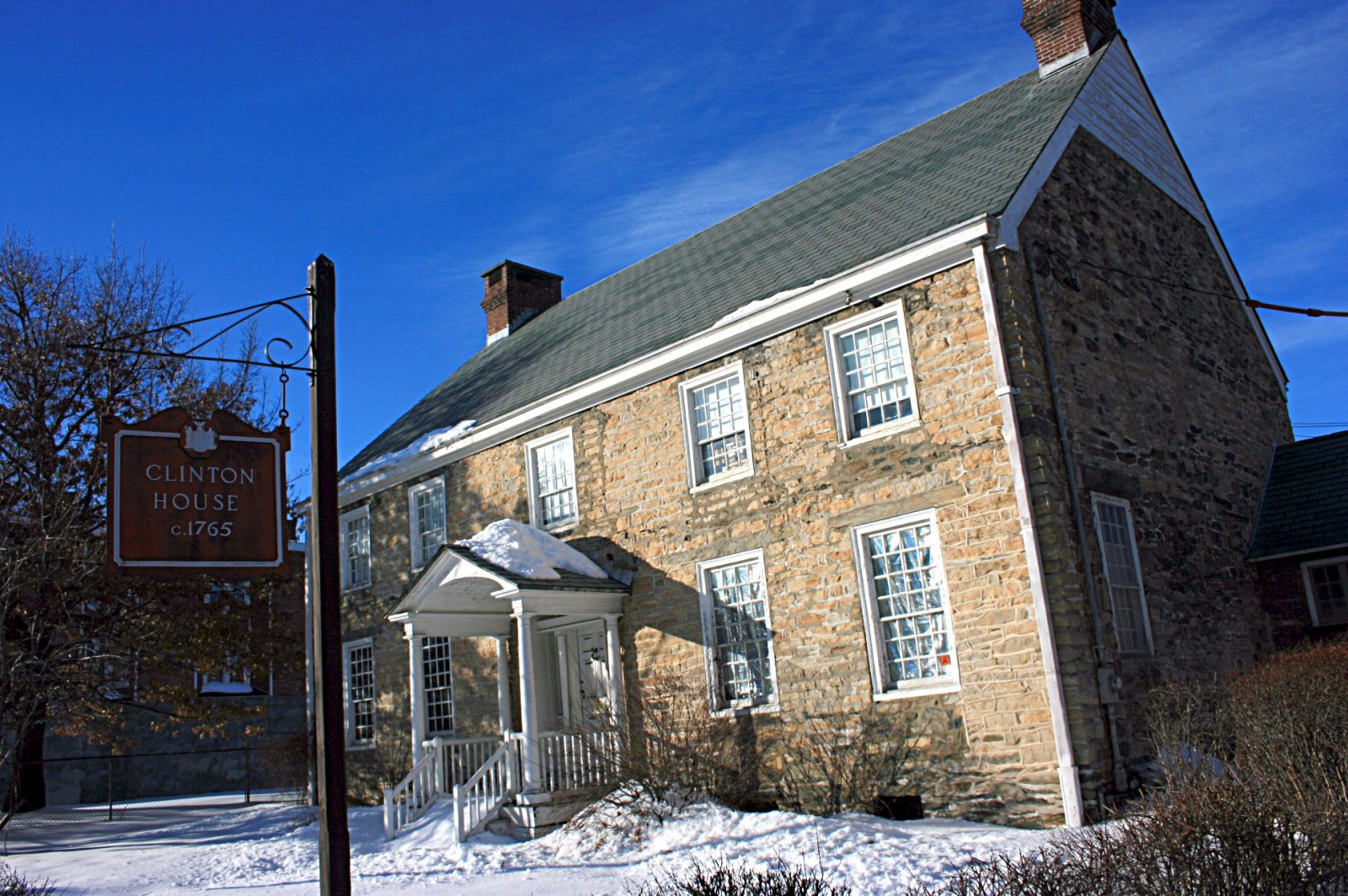 Photograph of the Clinton House in Poughkeepsie, New York, USA